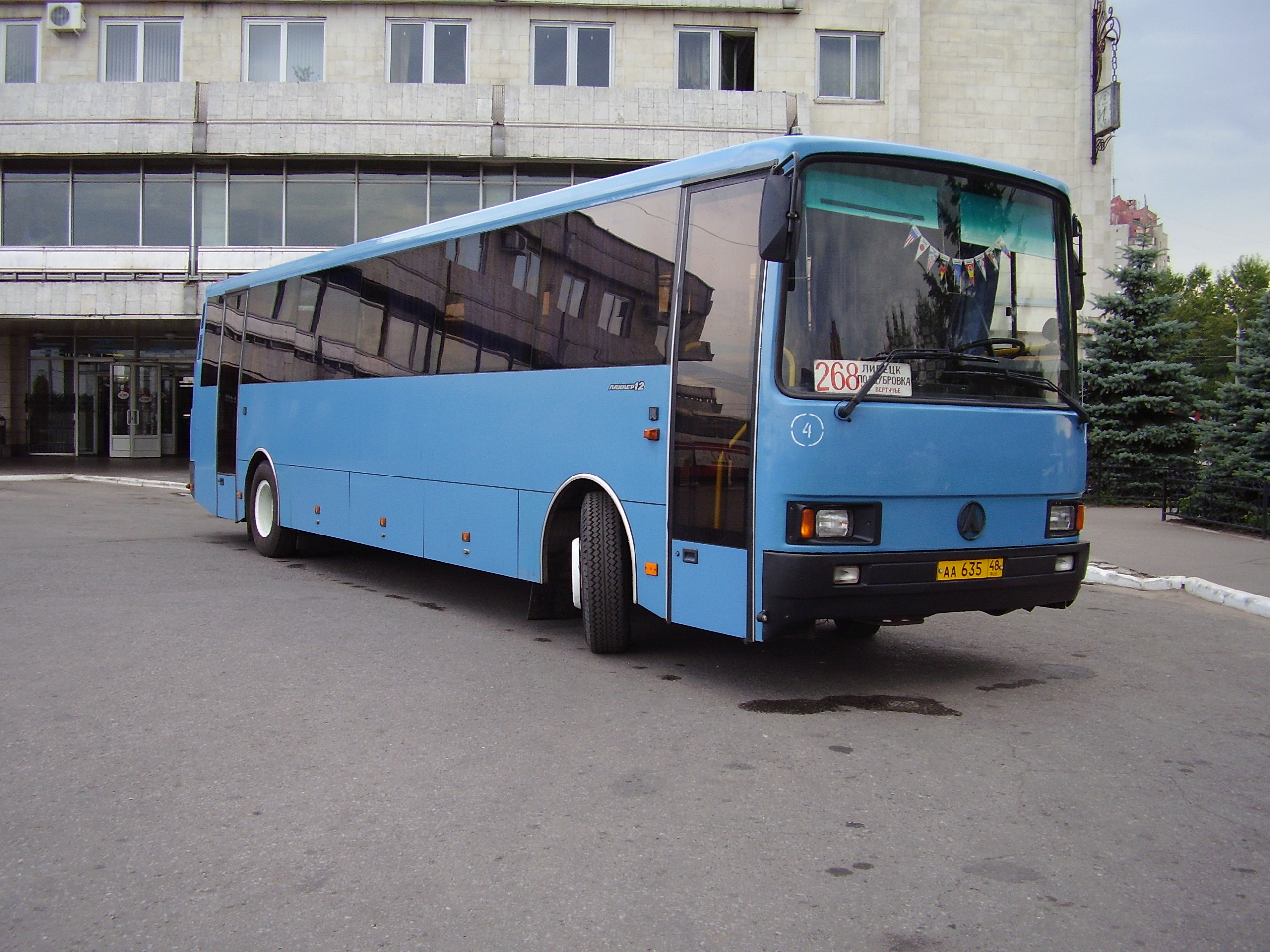 LAZ Liner 12 bus (reg. AA 635 48) in Lipetsk, Russia.